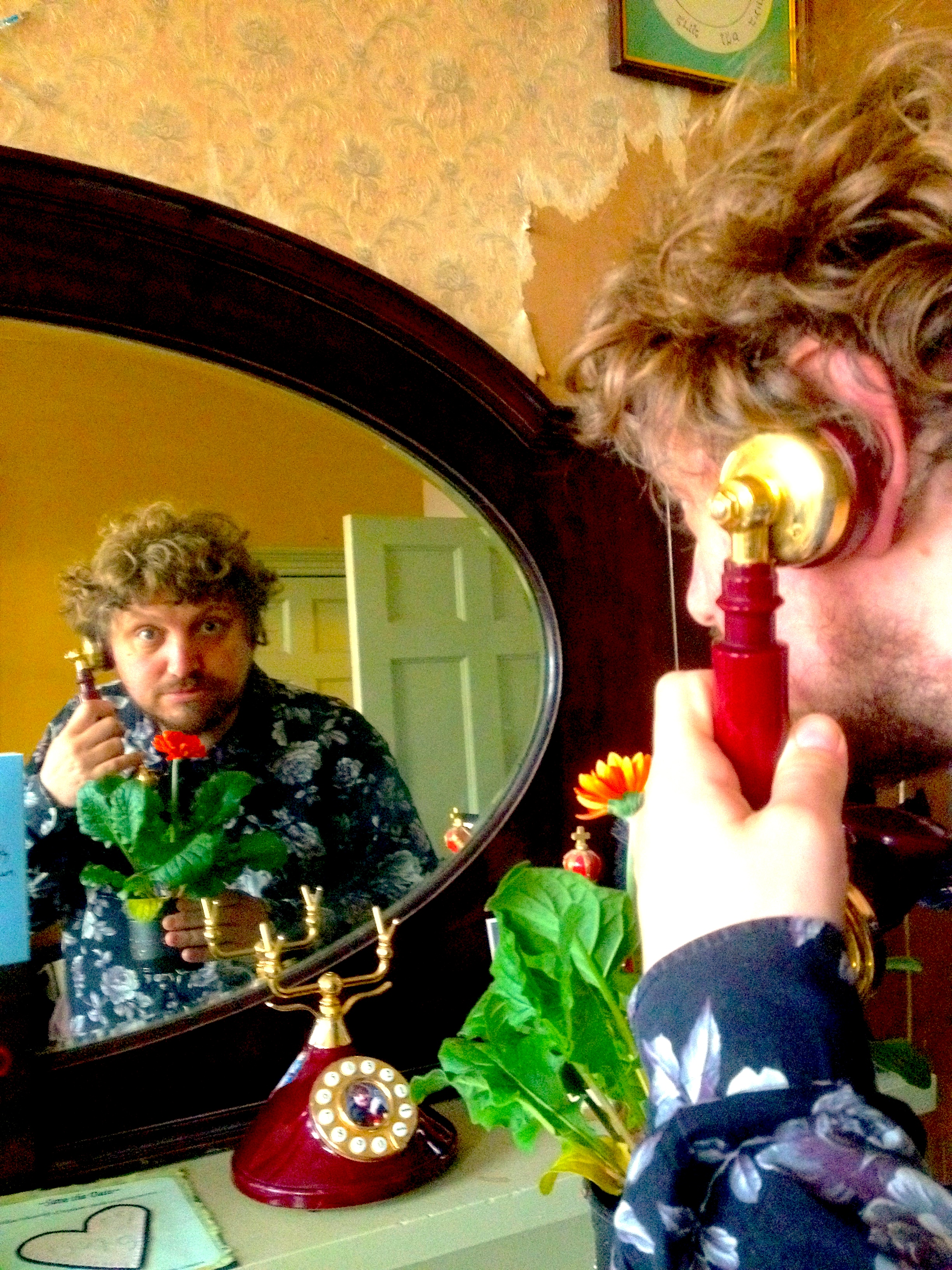 Mr. Twonkey photo